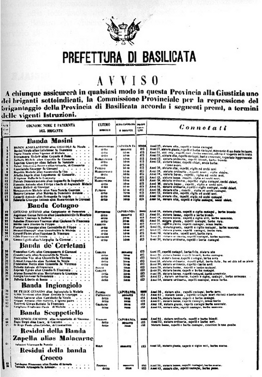 Wanted brigants with reward